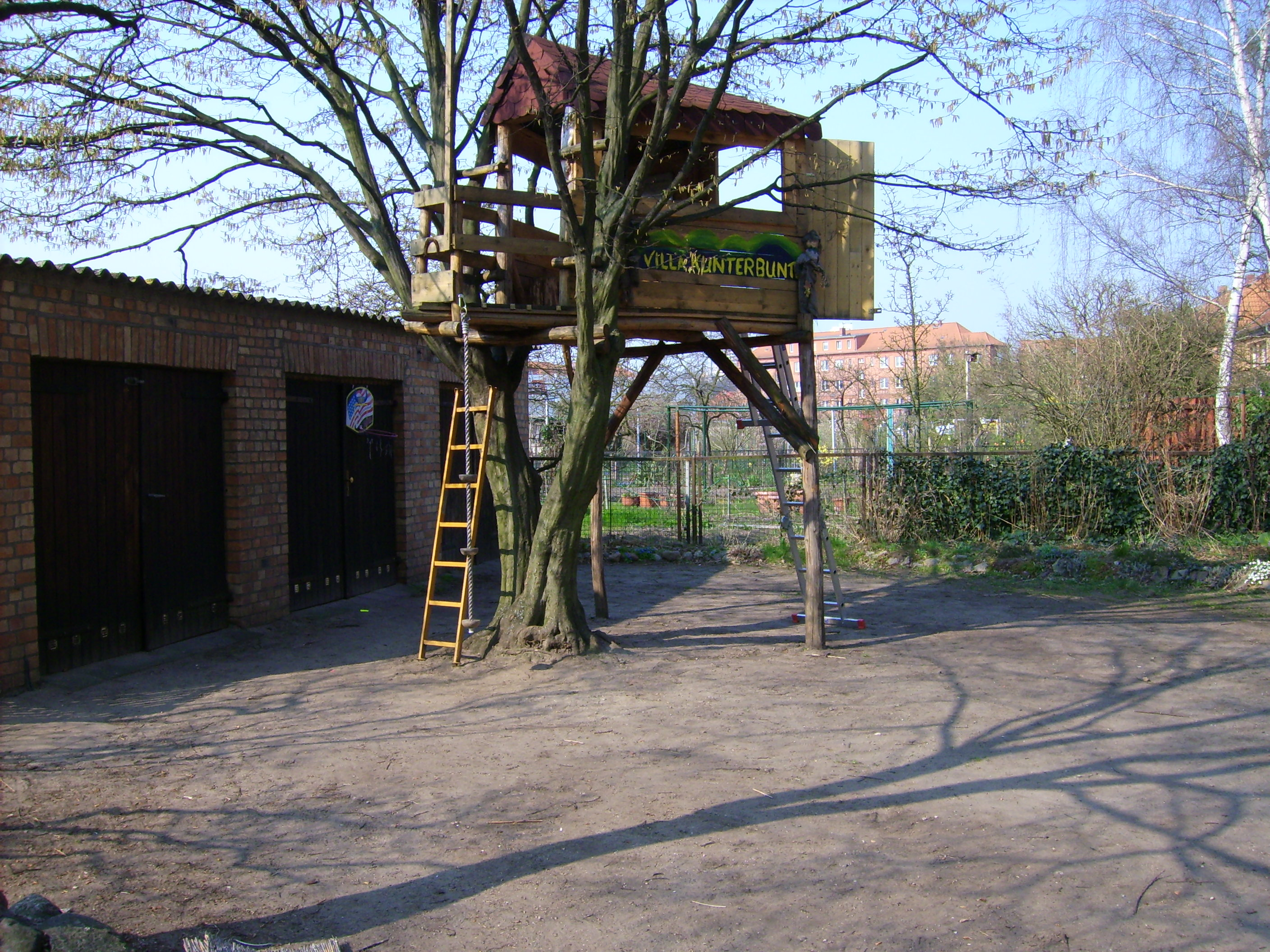 A tree house with the inscription "Villa Kunterbunt" ("Villa Villekulla"), seen in the German town Neubrandenburg, Mecklenburg-Western Pomerania.